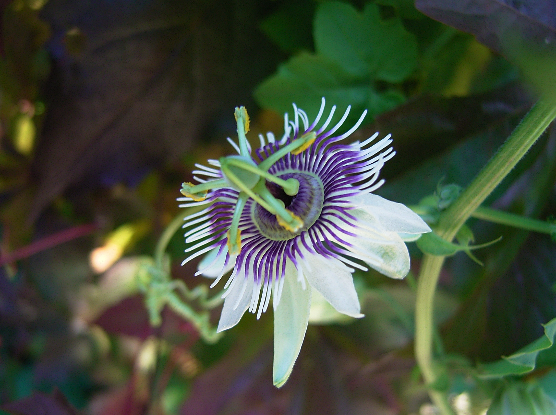 Passiflora morifolia, Flower